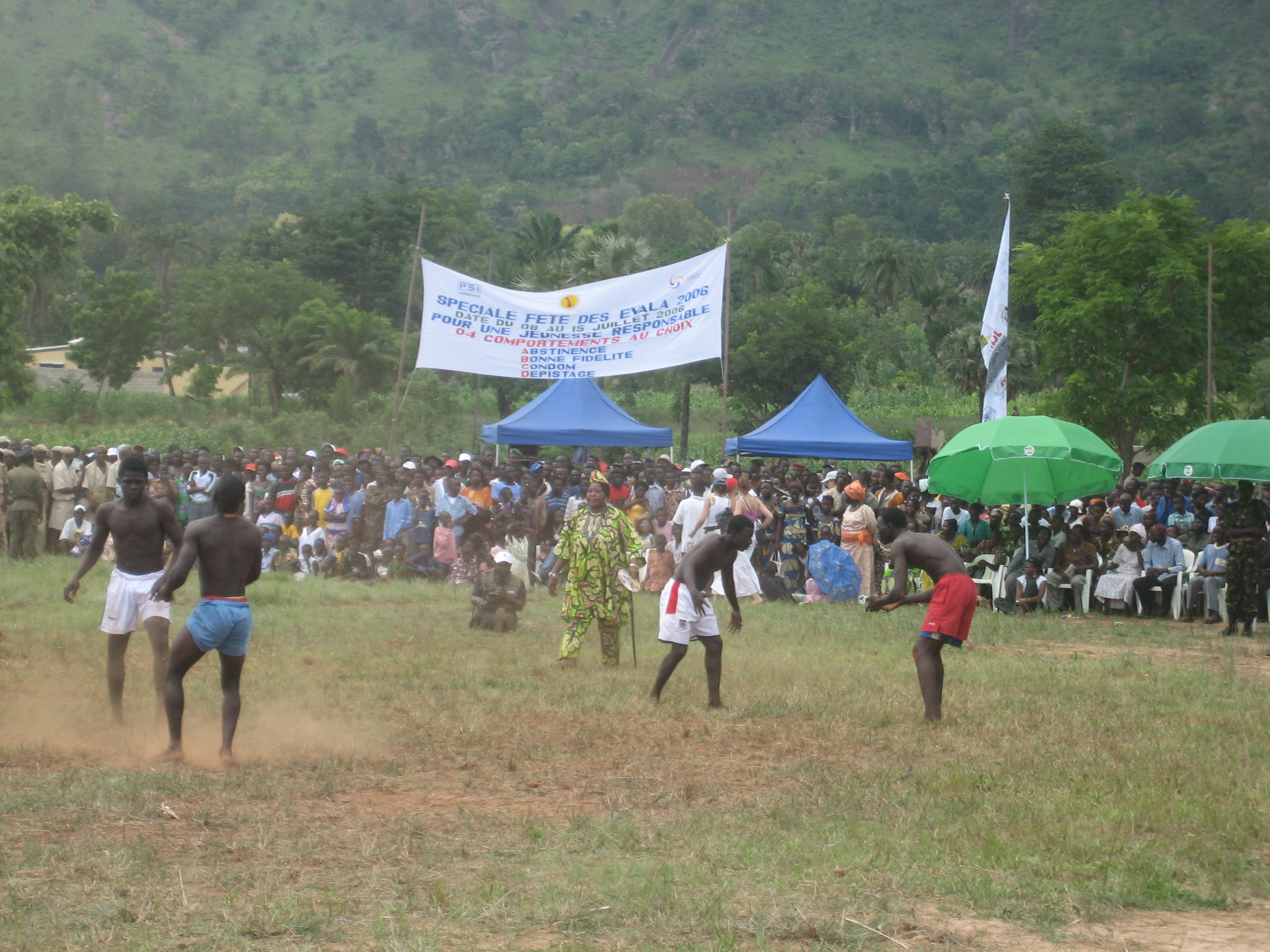 Festival of Evala, a famous wrestling sport in Togo